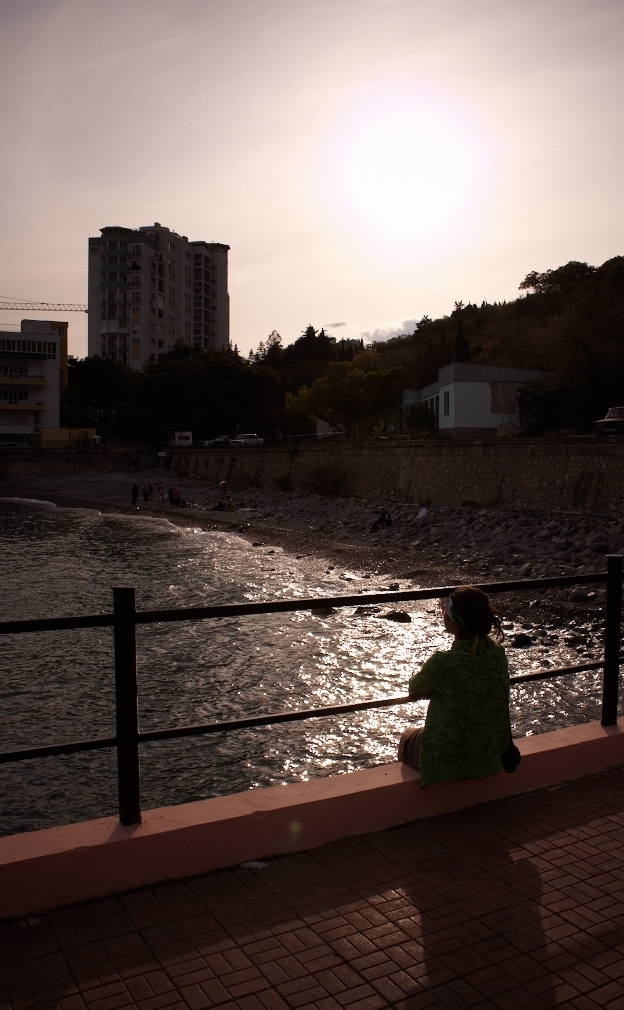 Beach in Nikita, Ukraine Qırımtatarca: Nikita, Qırım